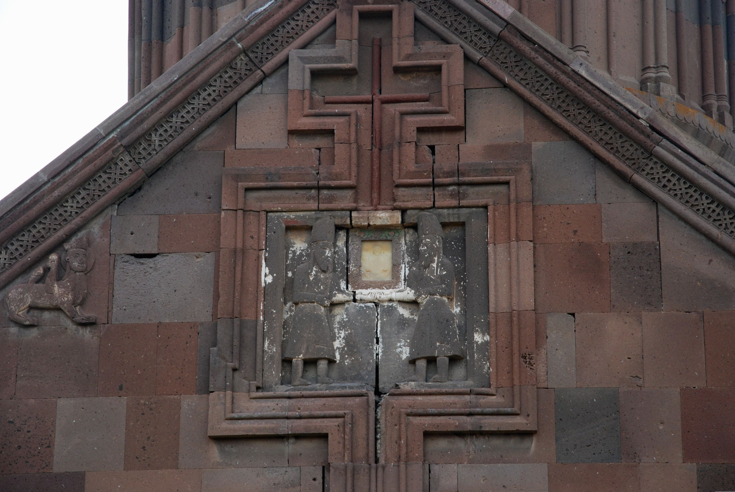 Harichavank, donators east facade